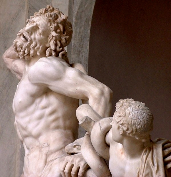 Laocoön and his sons, also known as the Laocoön Group. Marble, copy after an Hellenistic original from ca. 200 BC.